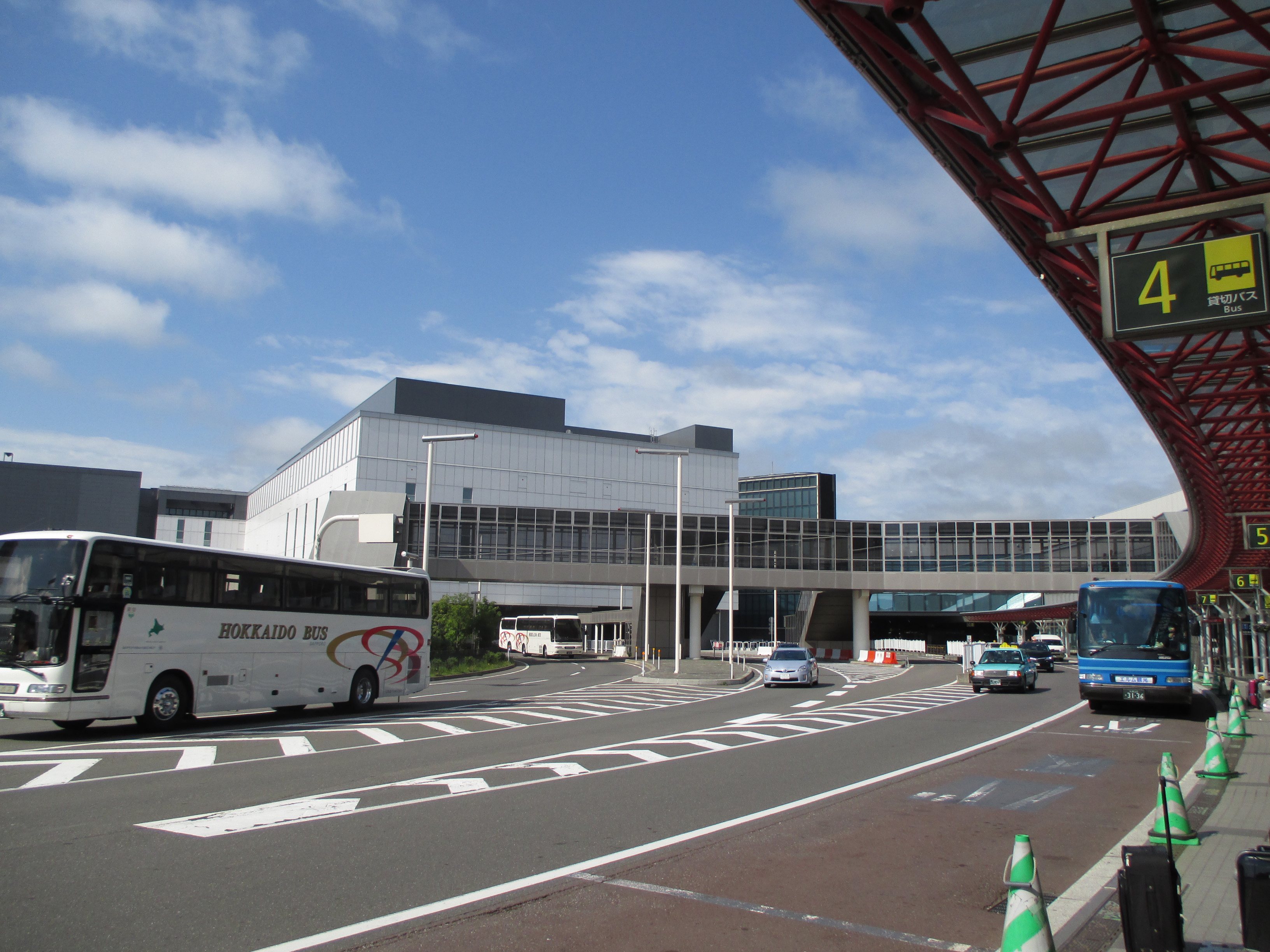 新千歳空港バスターミナル New Chitose Airport Busstop